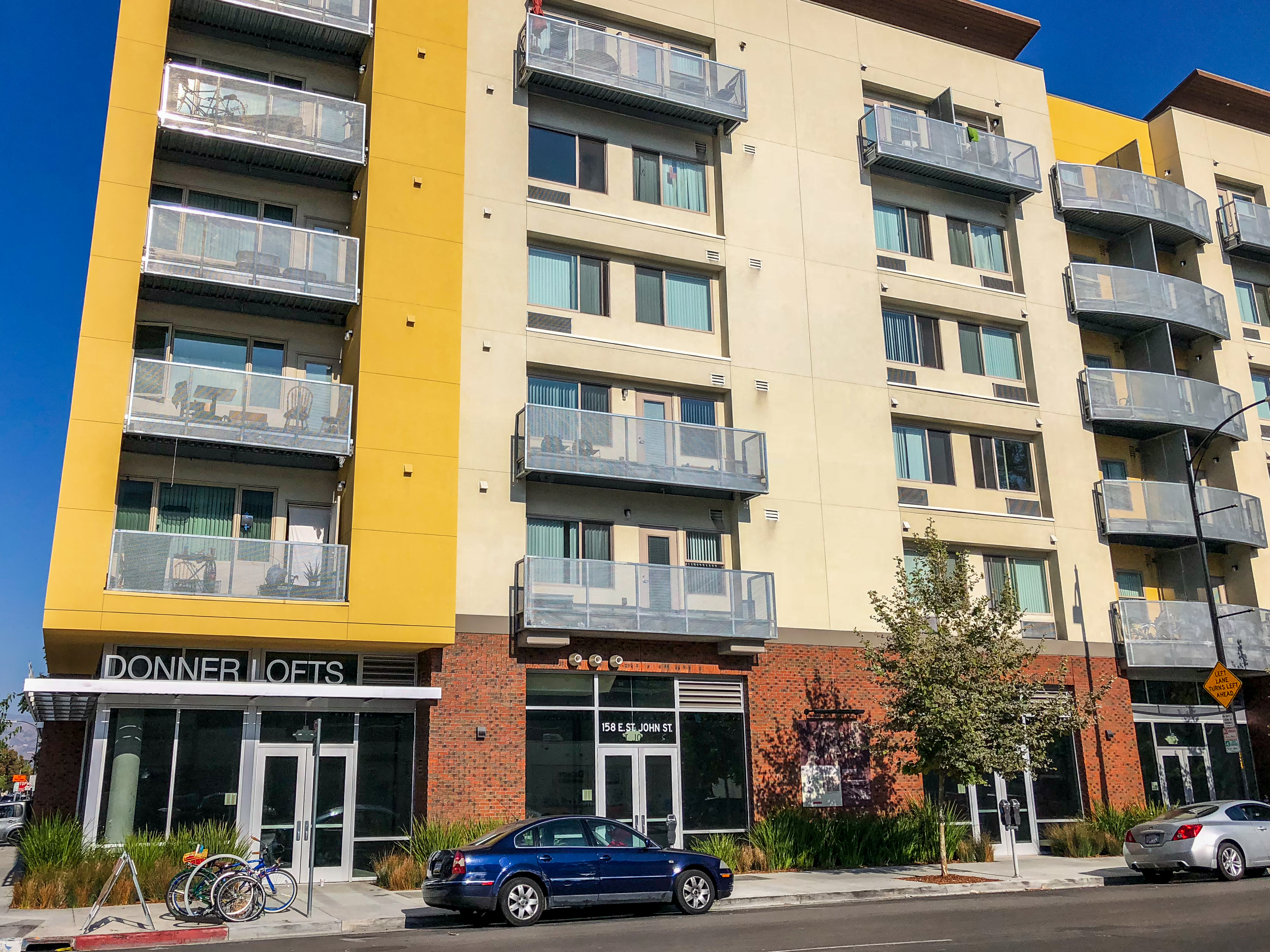 Donner Lofts is located in San Jose, California at 158 East Saint John Street, San Jose, CA 95112 in the San Francisco Bay Area. This apartment community was built in 2016 and has 6 stories with 101 units. This is an Affordable Housing building with a waiting list to lease a unit.